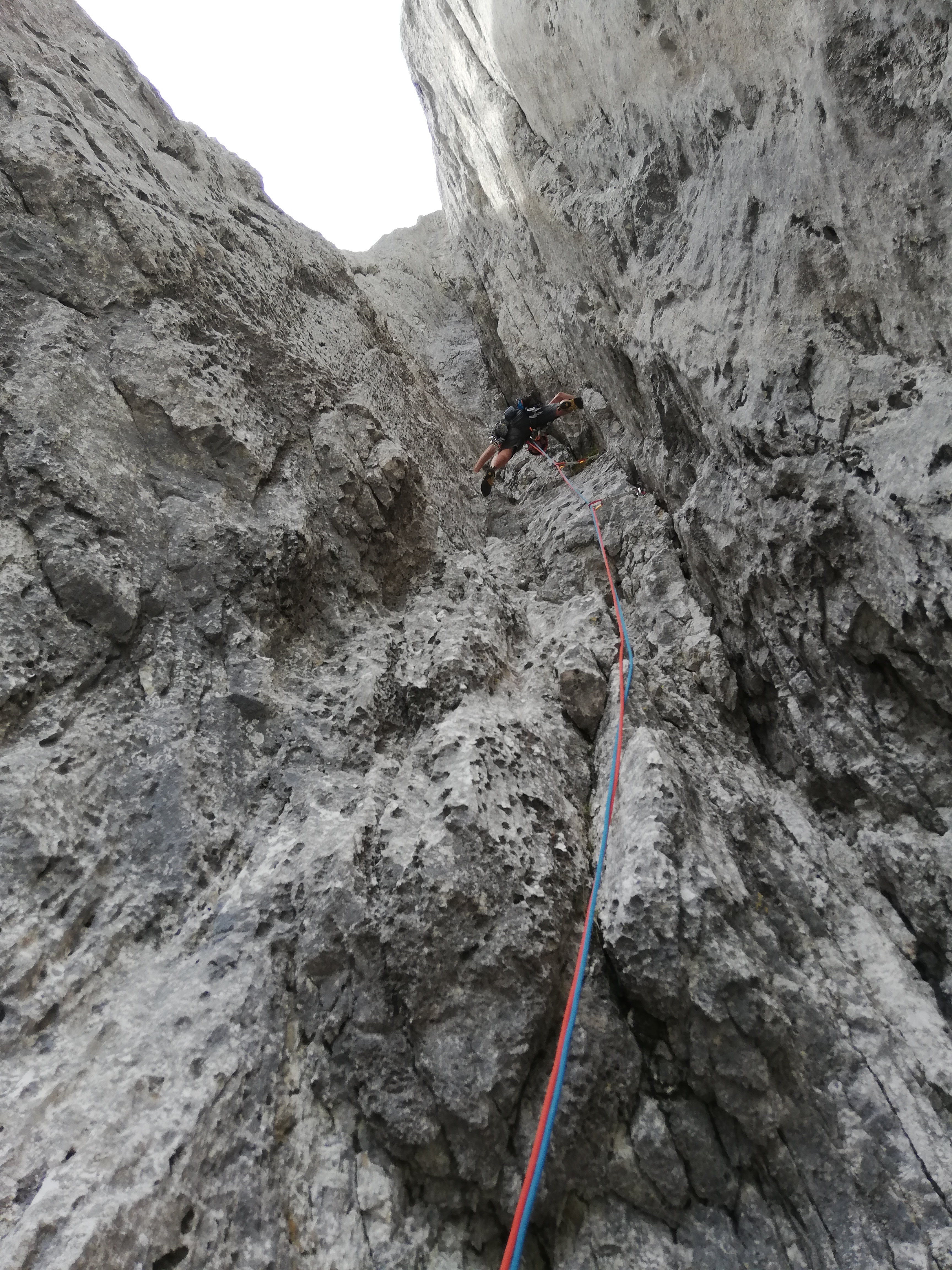 Schmuck-Kamin